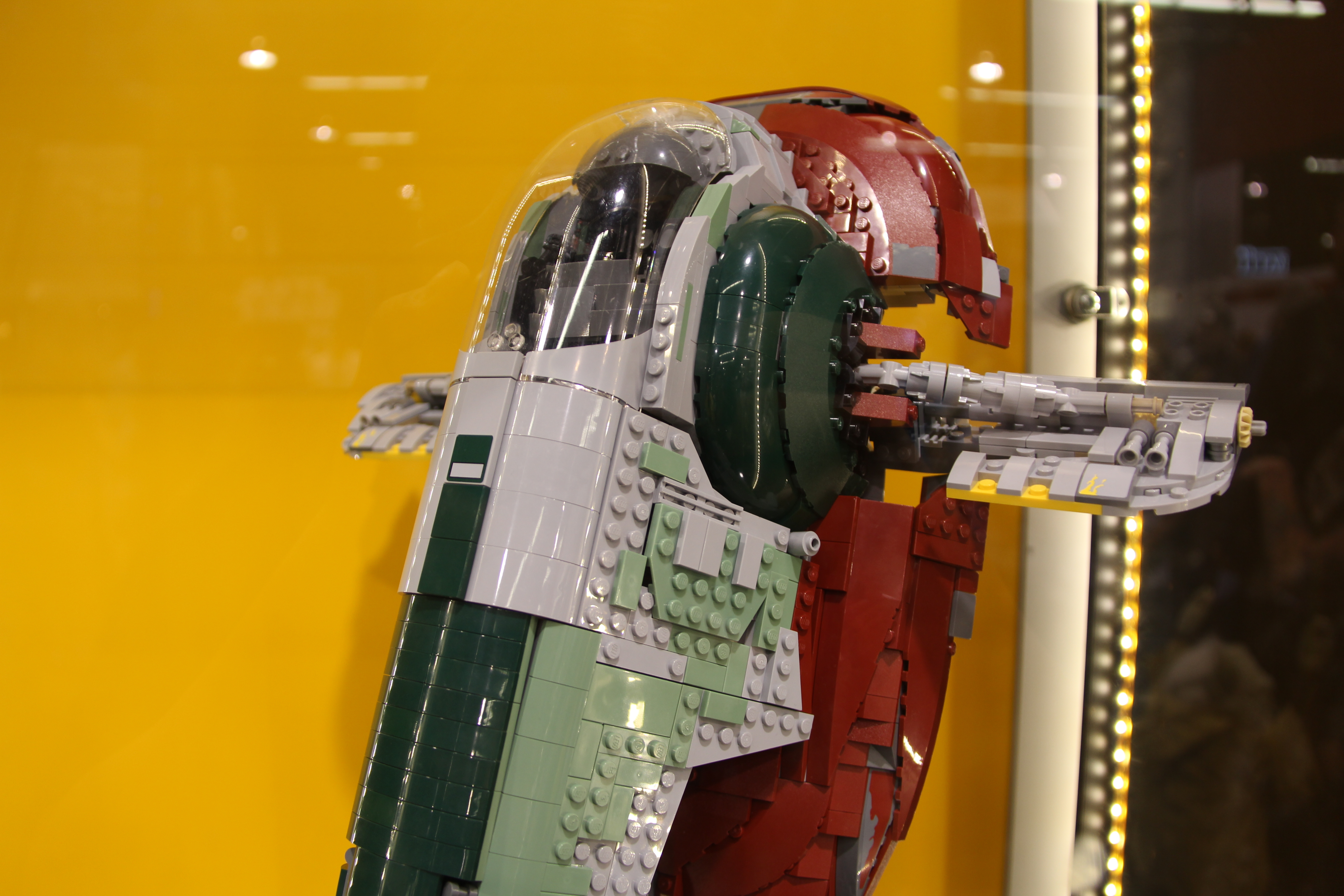 SWCA - Lego Slave I Star Wars Celebration in Anaheim, April 2015.